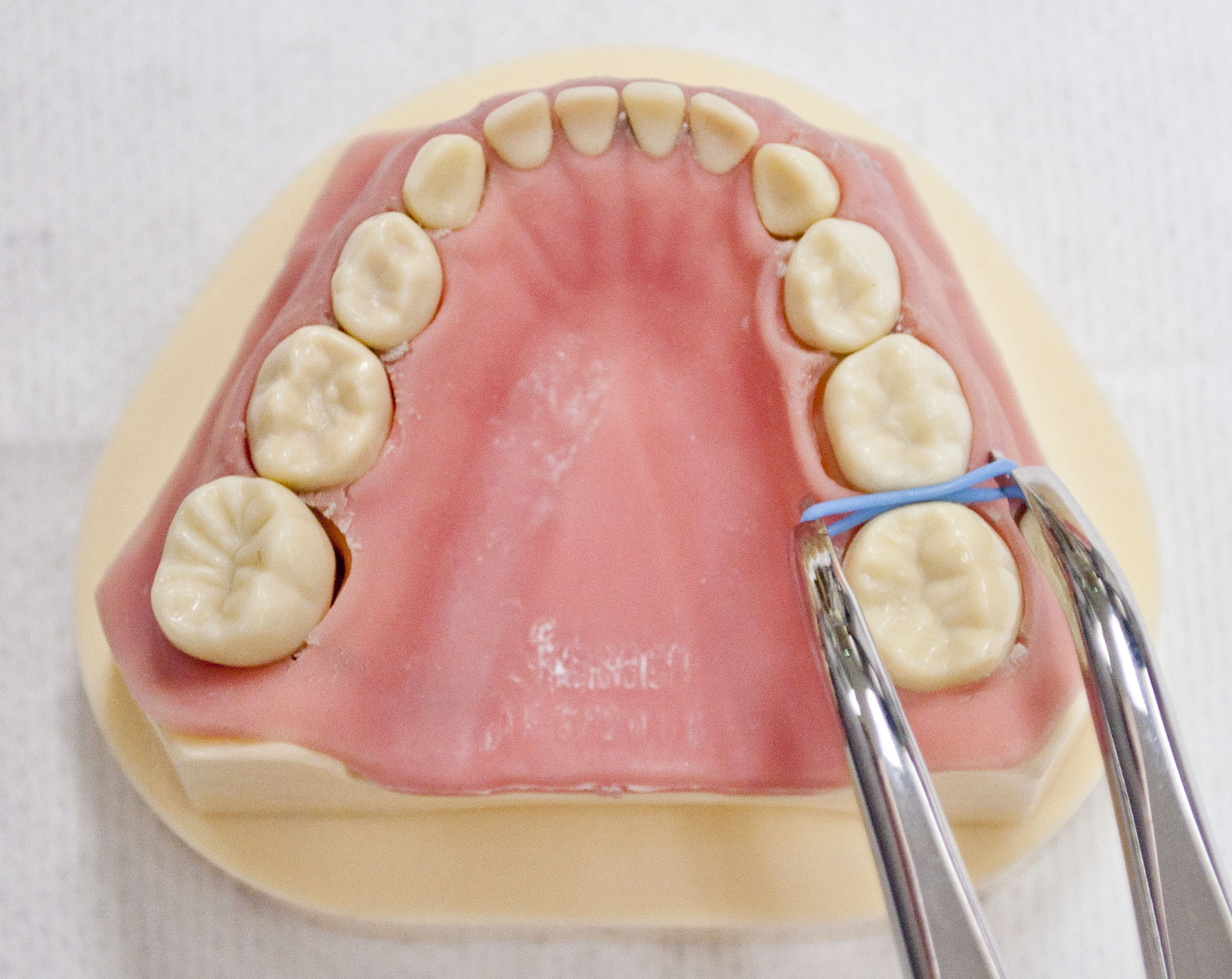 Separators can be place with a variety of instruments and are stretched between the contact point of the teeth